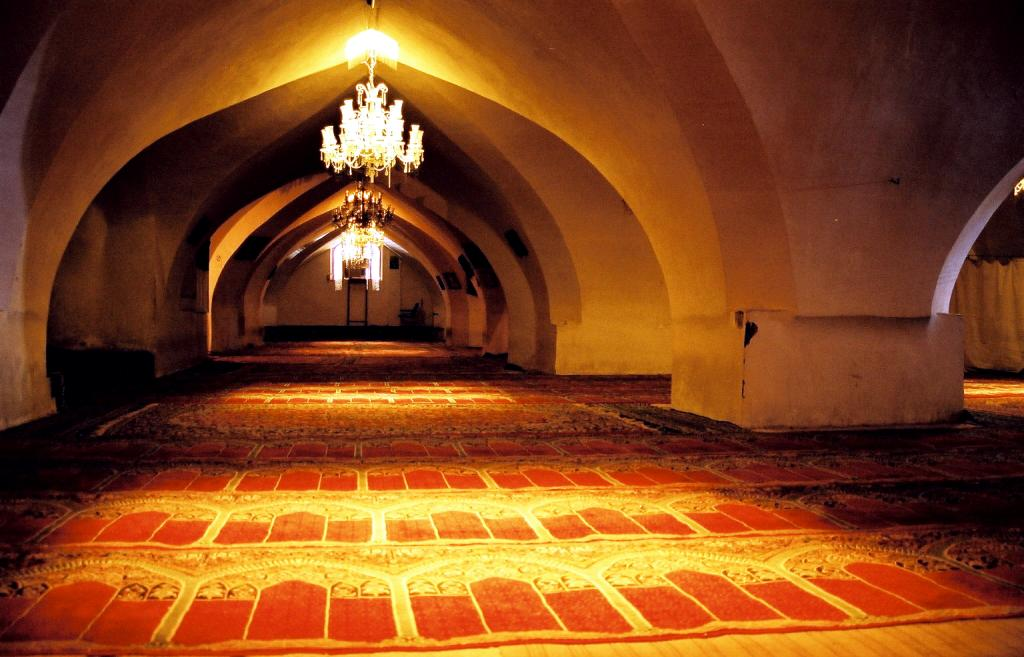 Timurid winter prayer hall of the Masjid-e Jomeh, Esfahan, Iran.